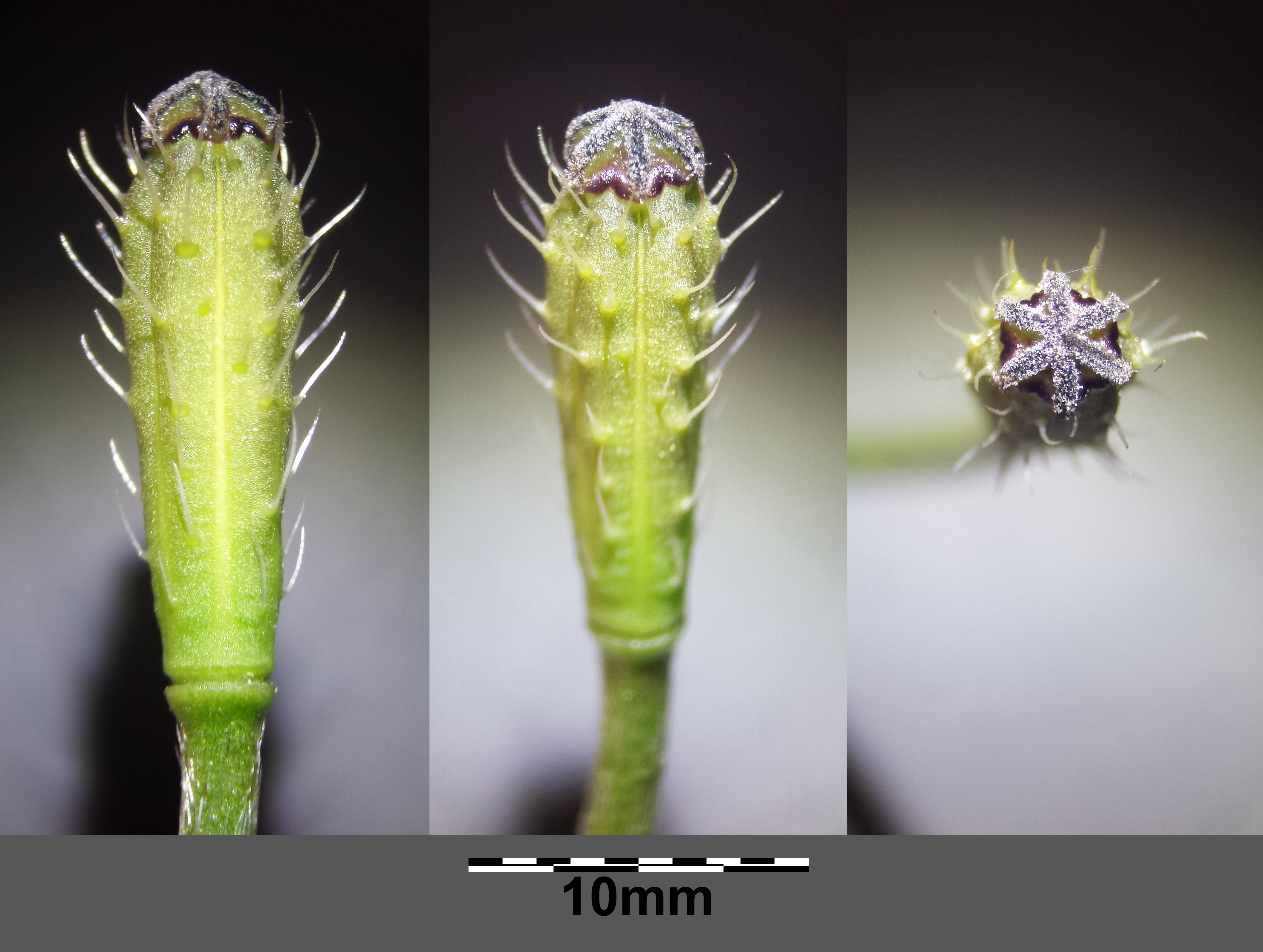 Fruit Taxonym: Papaver argemone ss Fischer et al. EfÖLS 2008 ISBN 978-3-85474-187-9 Location: Floridsdorf rail station, Vienna-Floridsdorf - ca. 160 m a.s.l. Habitat: ballast